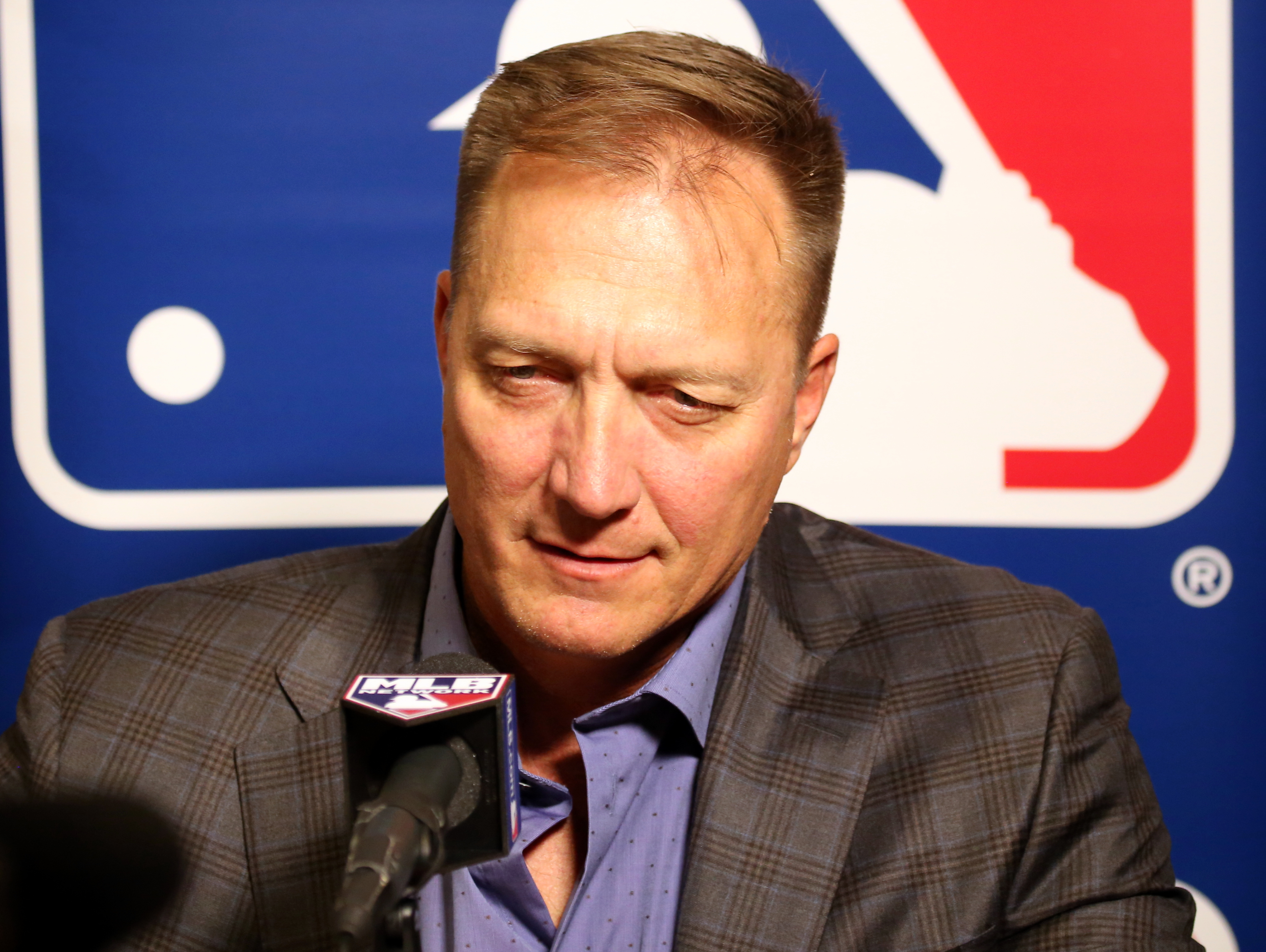 Rangers manager Jeff Banister talks to the media at the #WinterMeetings.